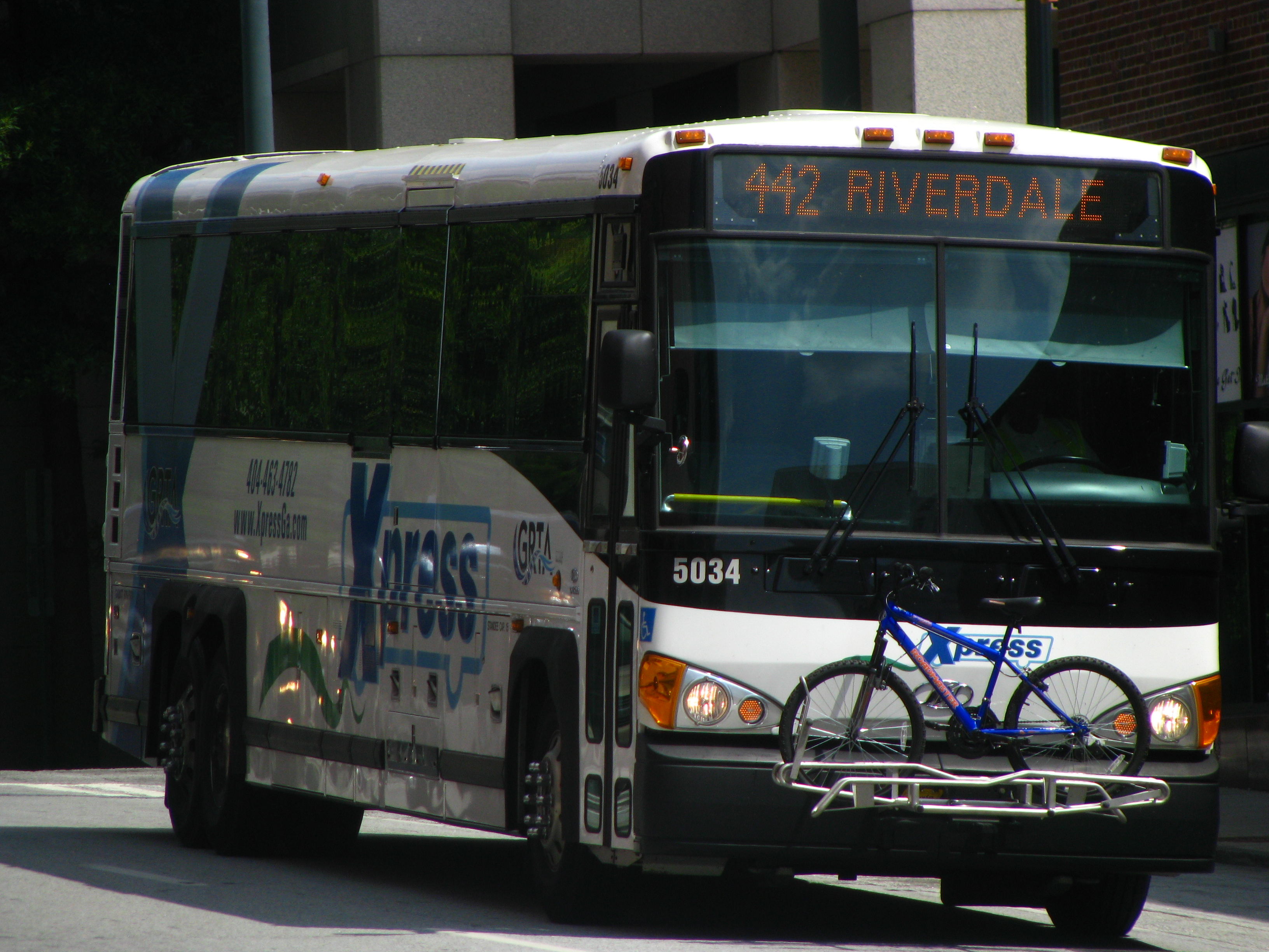 The newest of the fleet